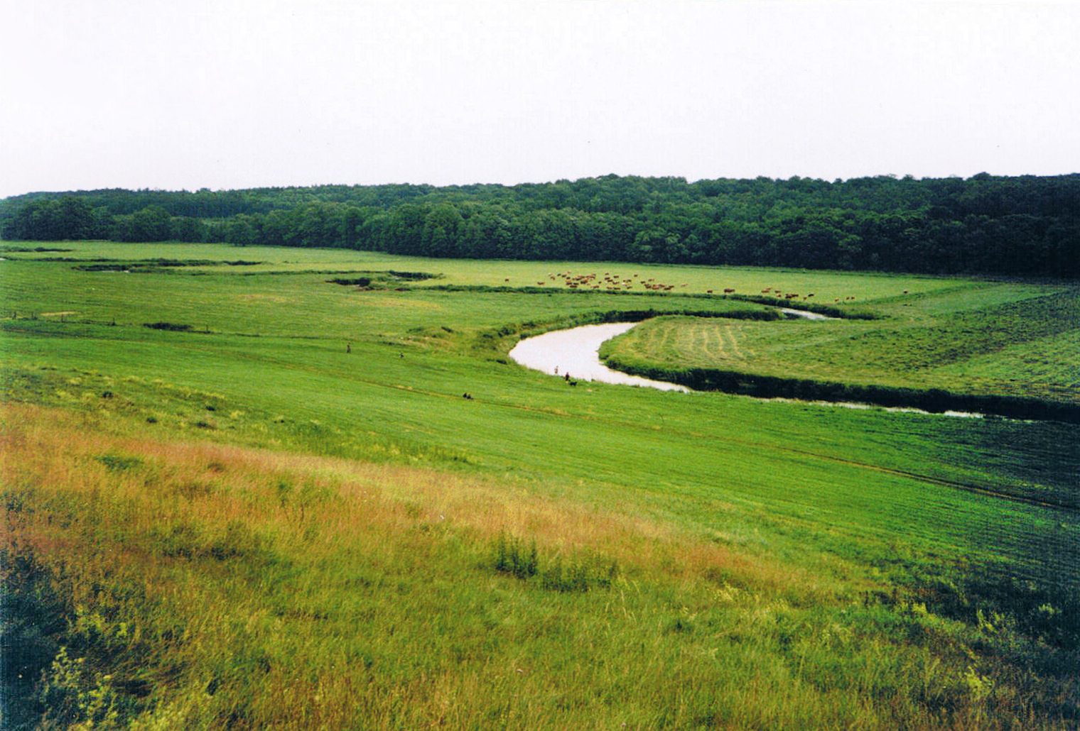 The river Tollense near the village Weltzin in Mecklenburg-Vorpommern (Germany). View of the place of the Battle of the Tollense River from approx. 1300 BC